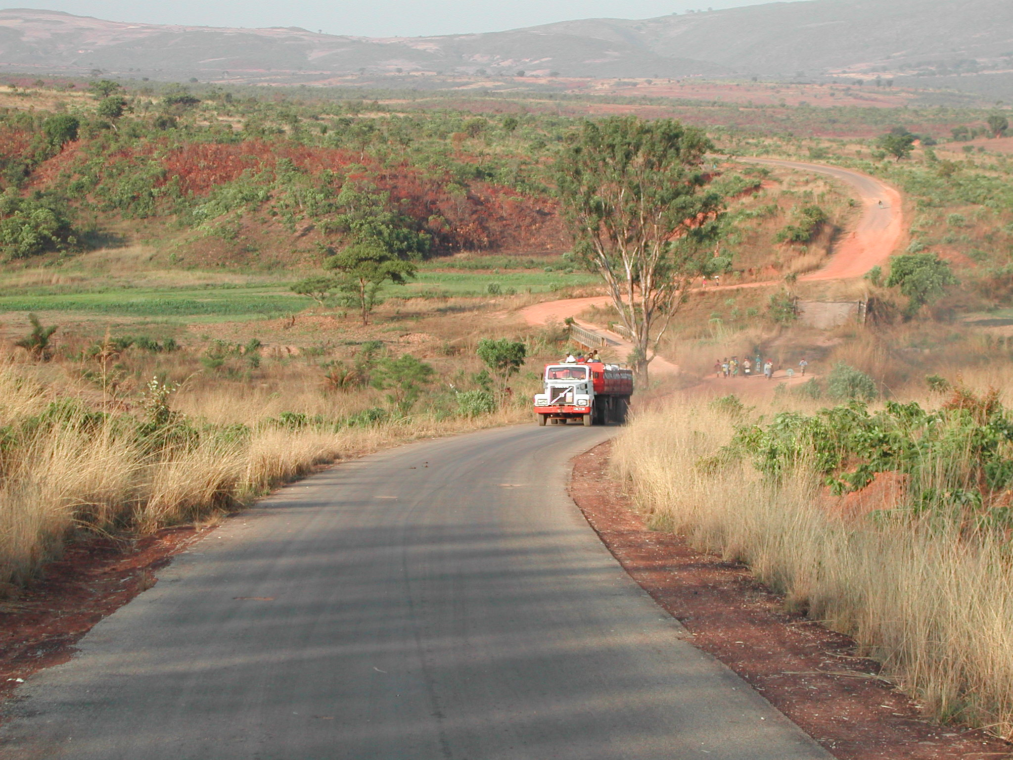 Temporary bridge at the road between Ukuma and Huambo, Huambo province, Angola